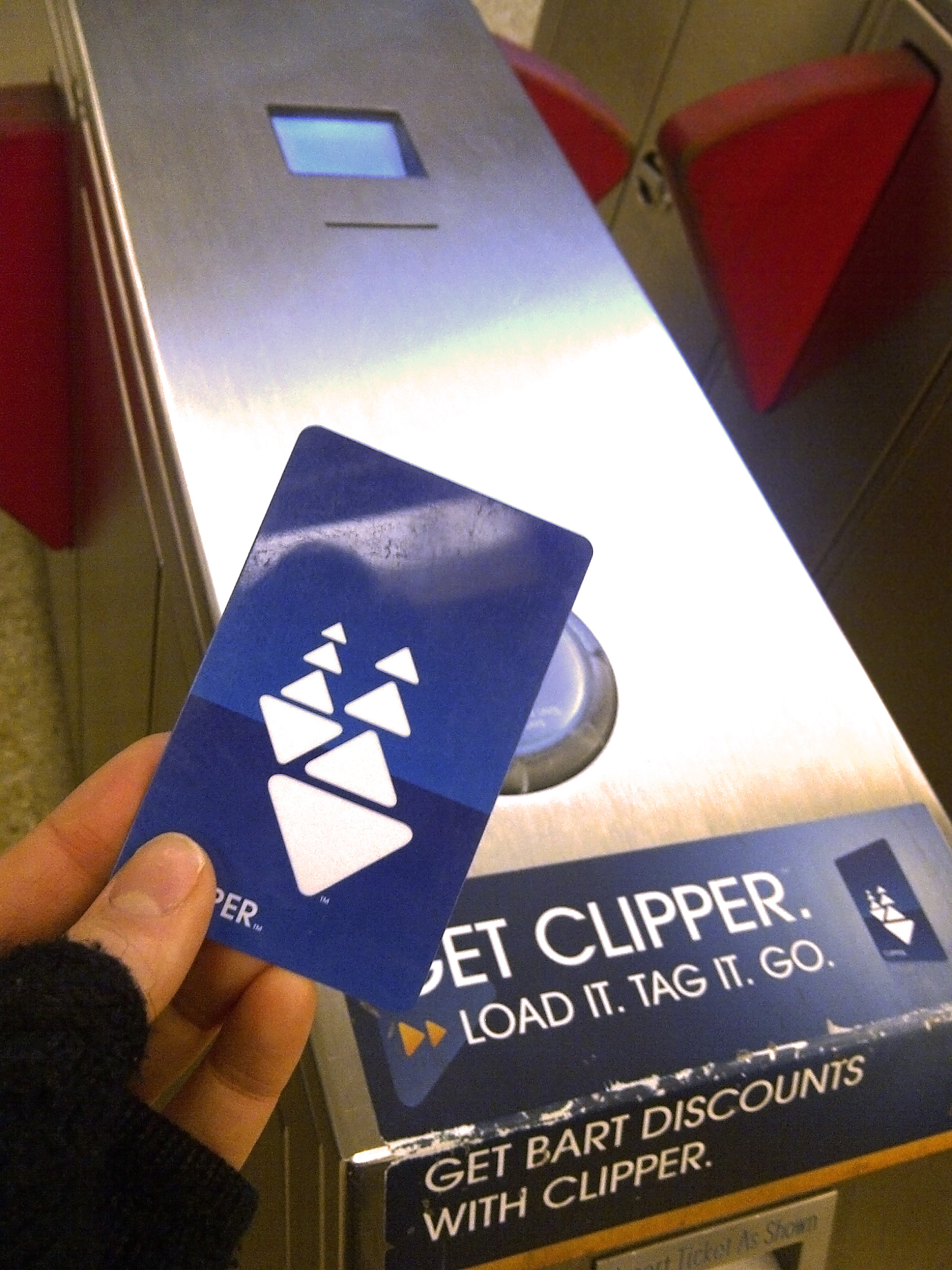 Clipper Card being used for fore payment at Downtown Berkeley station in 2012